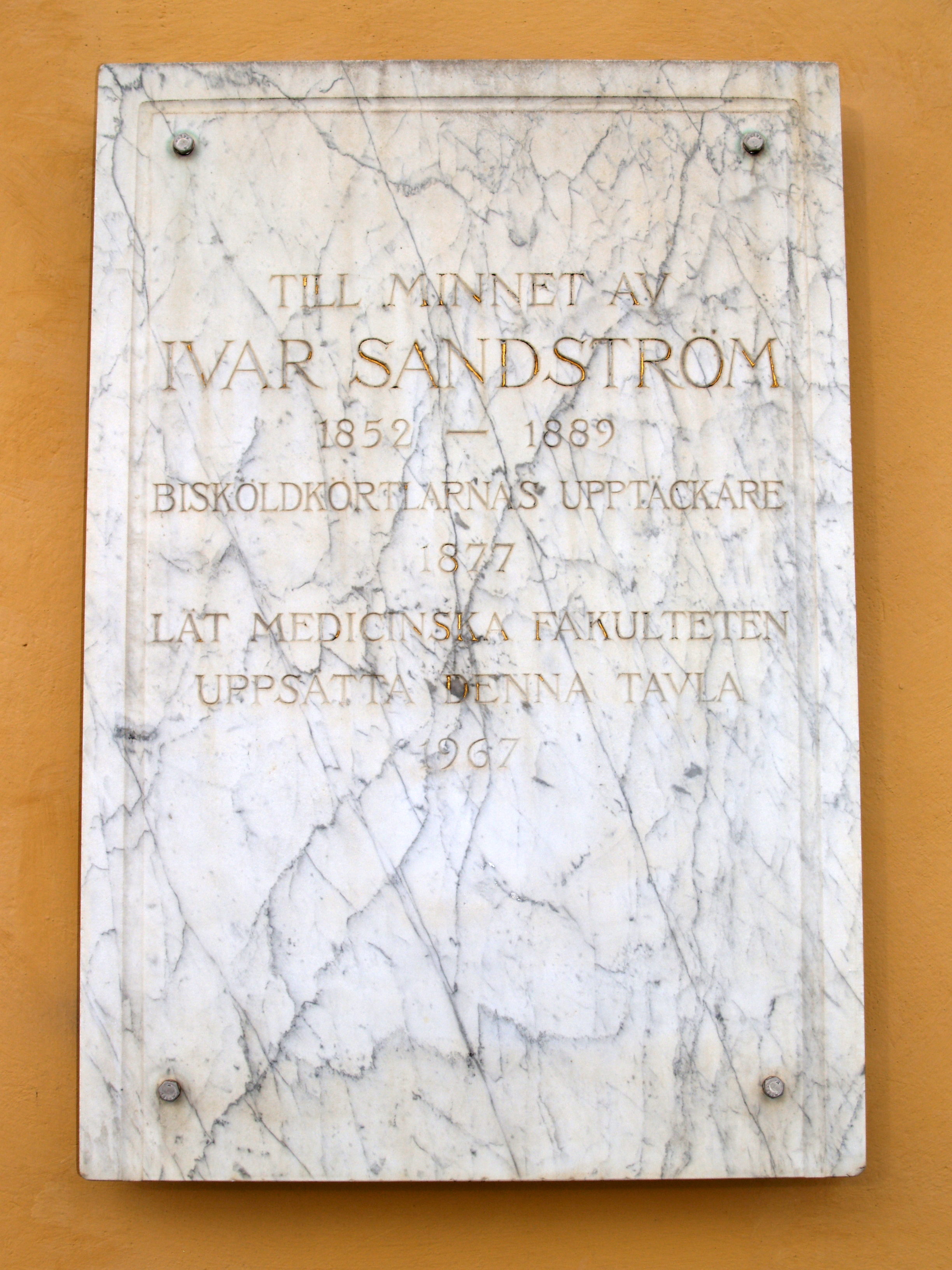 Memory plaque over Ivar Sandström (discoverer of The parathyroid glands) in Uppsala